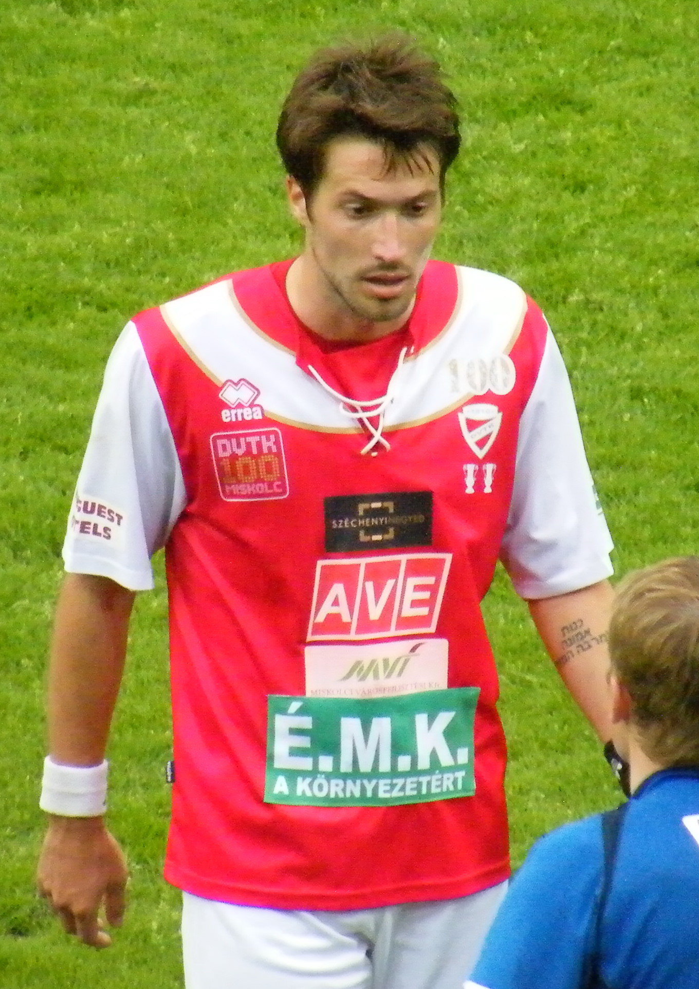 Zoran Šupić Serbian football player